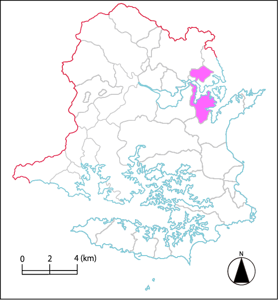 This is the map of Isobecho-Sangasho, Shima, Mie, Japan.